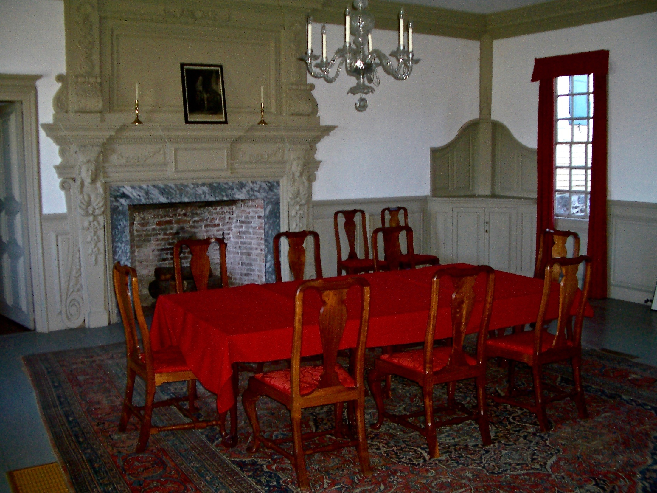 Wentworth-Coolidge Mansion, eighteenth-century great parlor, reputed to have been used for meetings of governor Benning Wentworth's council.